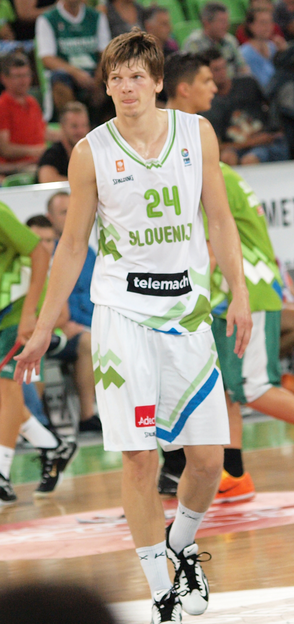 Jaka Klobučar, Slovenia. Slovenia - Serbia friendly basketball match 2015-08-27